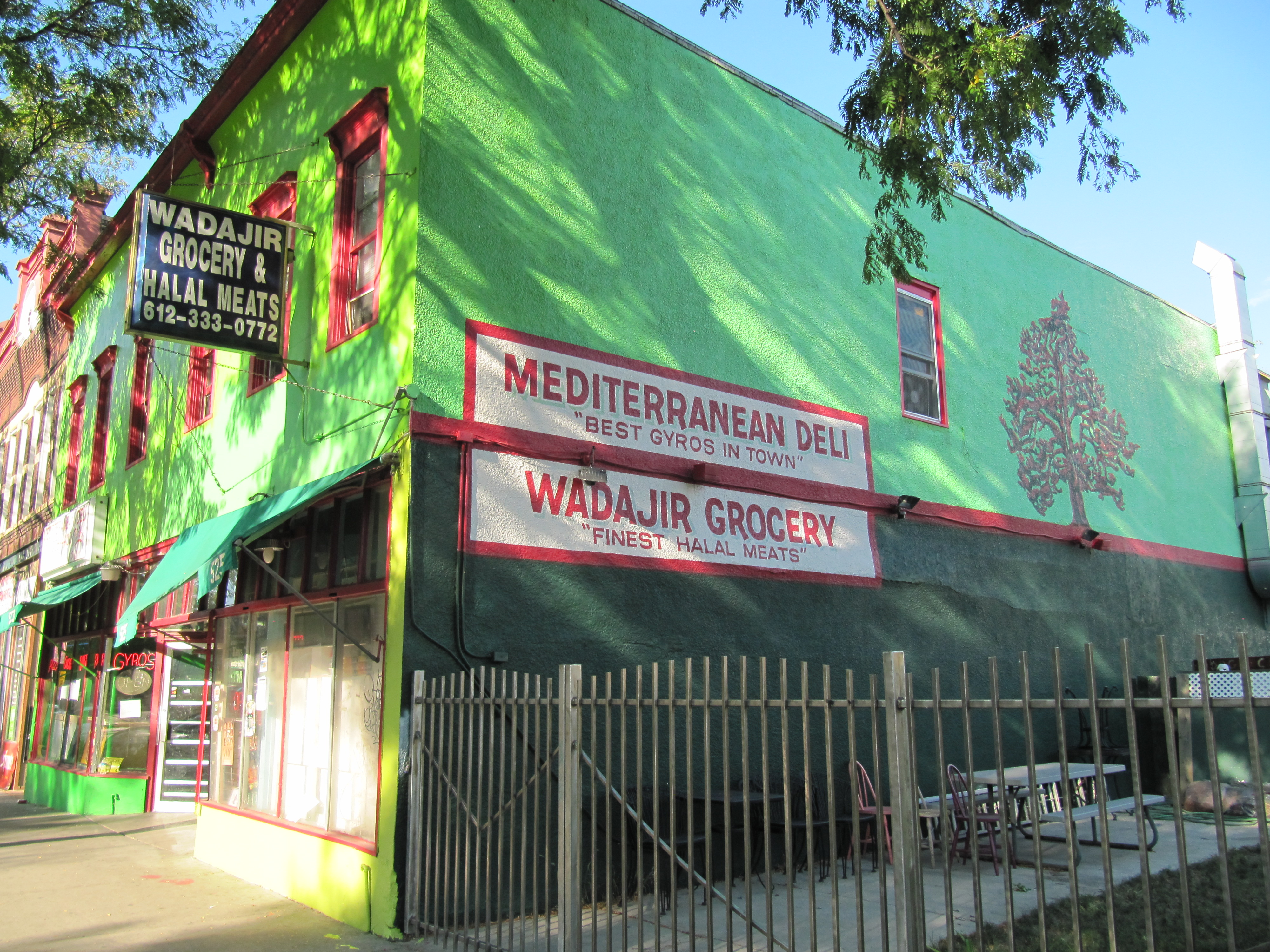 Wadajir Grocery and Mediterranean Deli. Cedar Avenue between 5th and 6th Streets. Cedar-Riverside, Minneapolis, Minnesota.